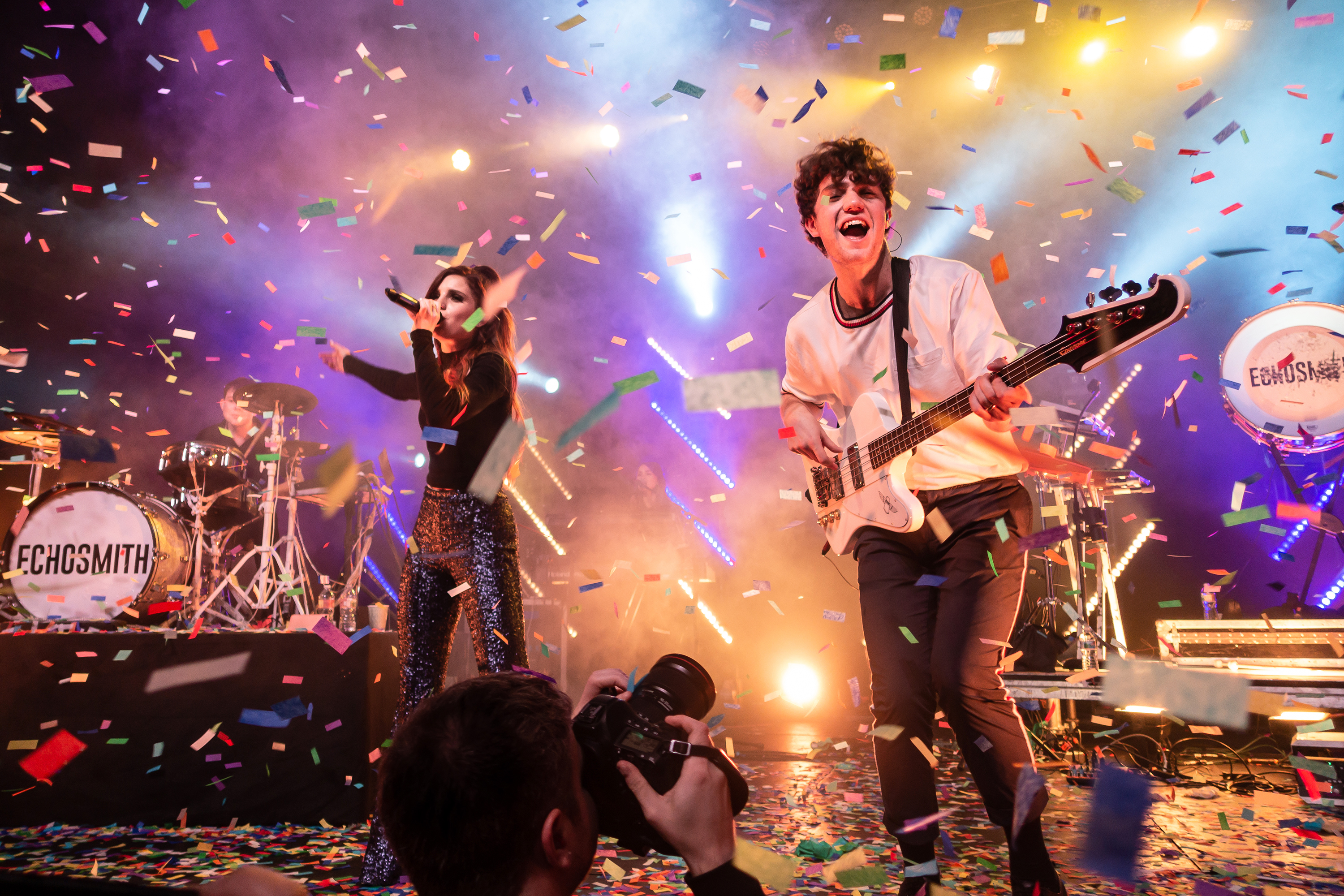 Echosmith performing live at The Fonda in Los Angeles, California, on Saturday, May 12, 2018. This was the final (and hometown) show of their "Inside A Dream" tour.